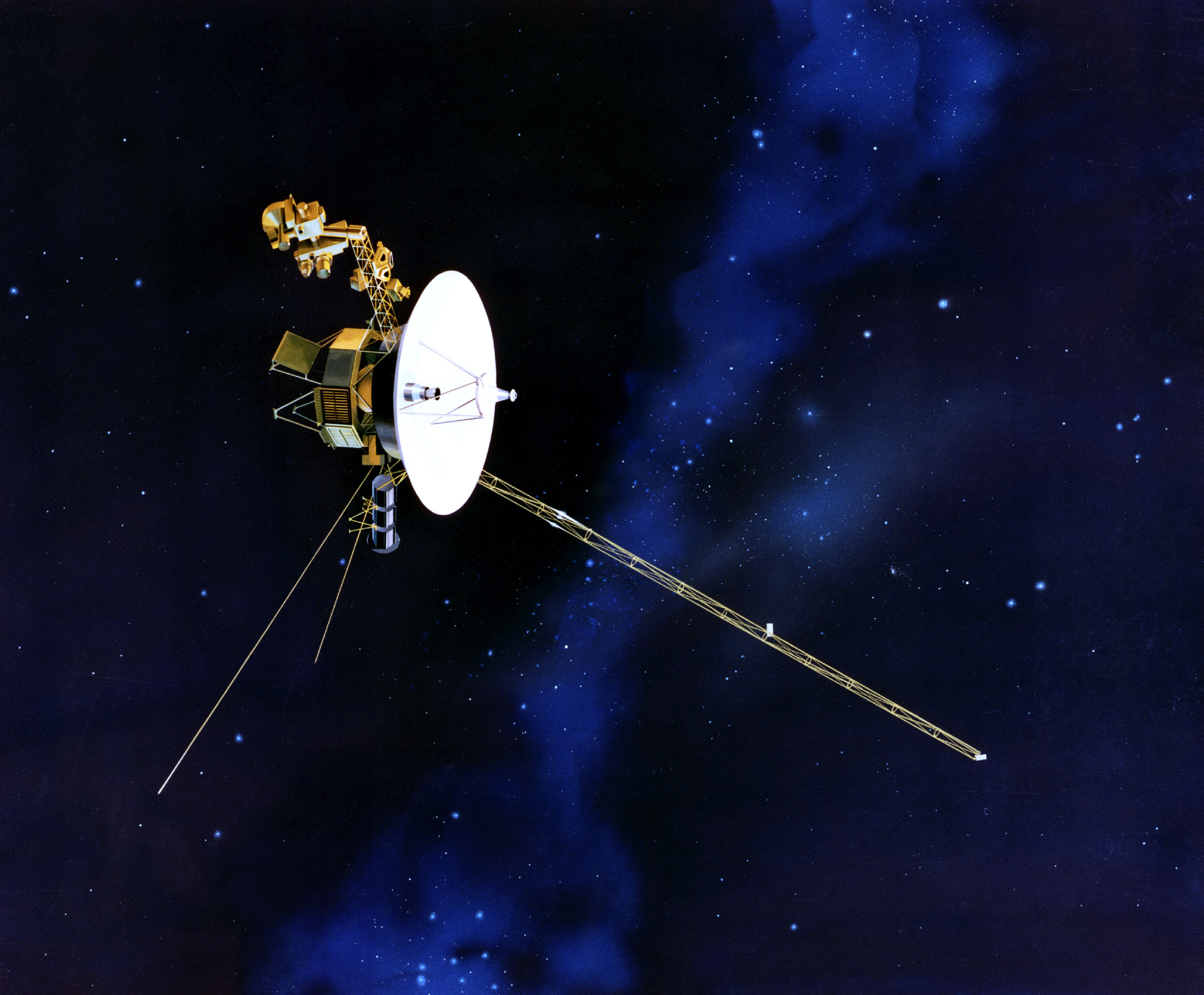 Artist's concept of Voyager in flight